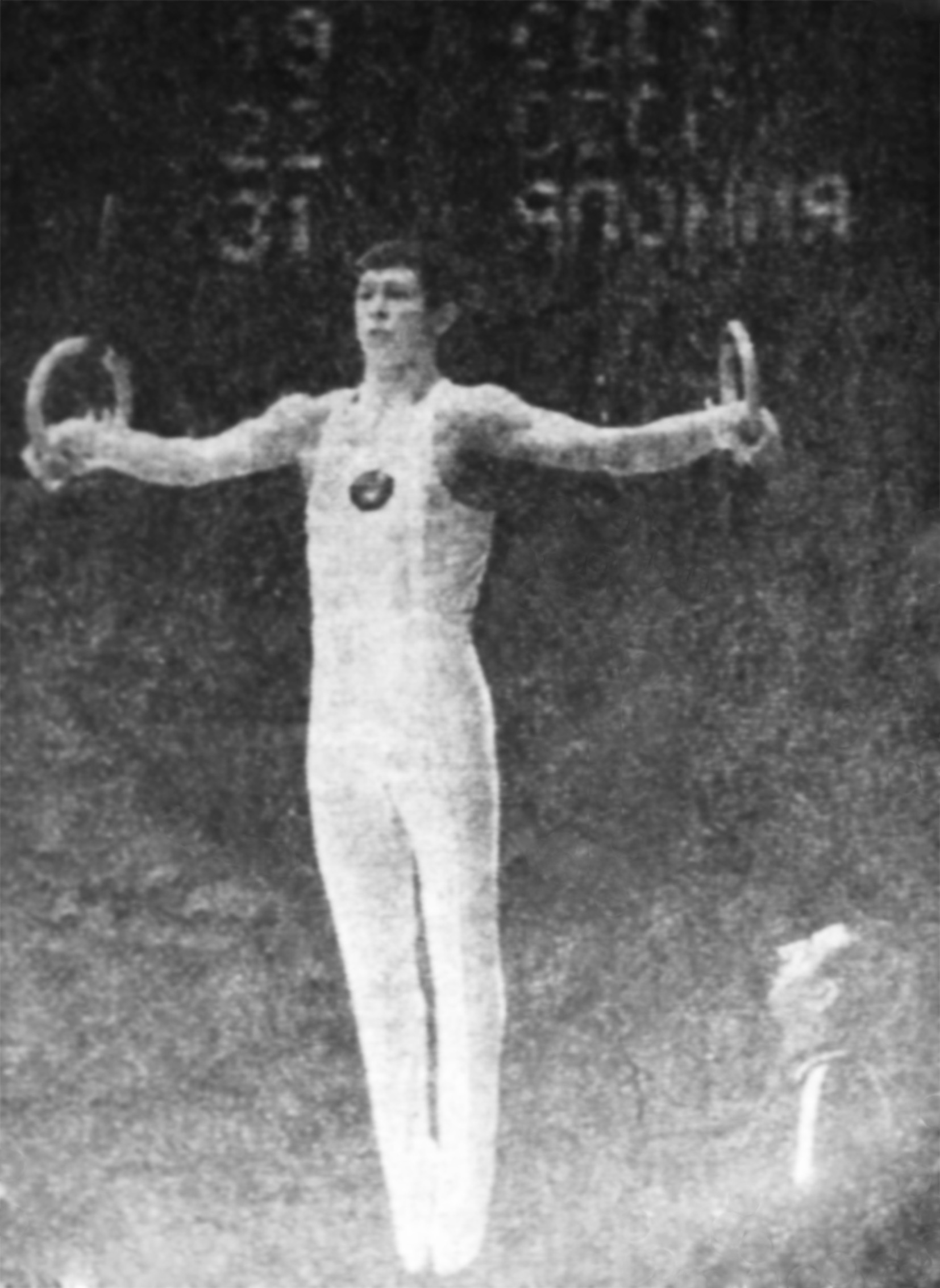 Тренер Вассерман К.Е. со своим воспитанником Марченко В.